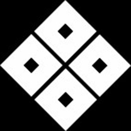 Crest of Japanese families